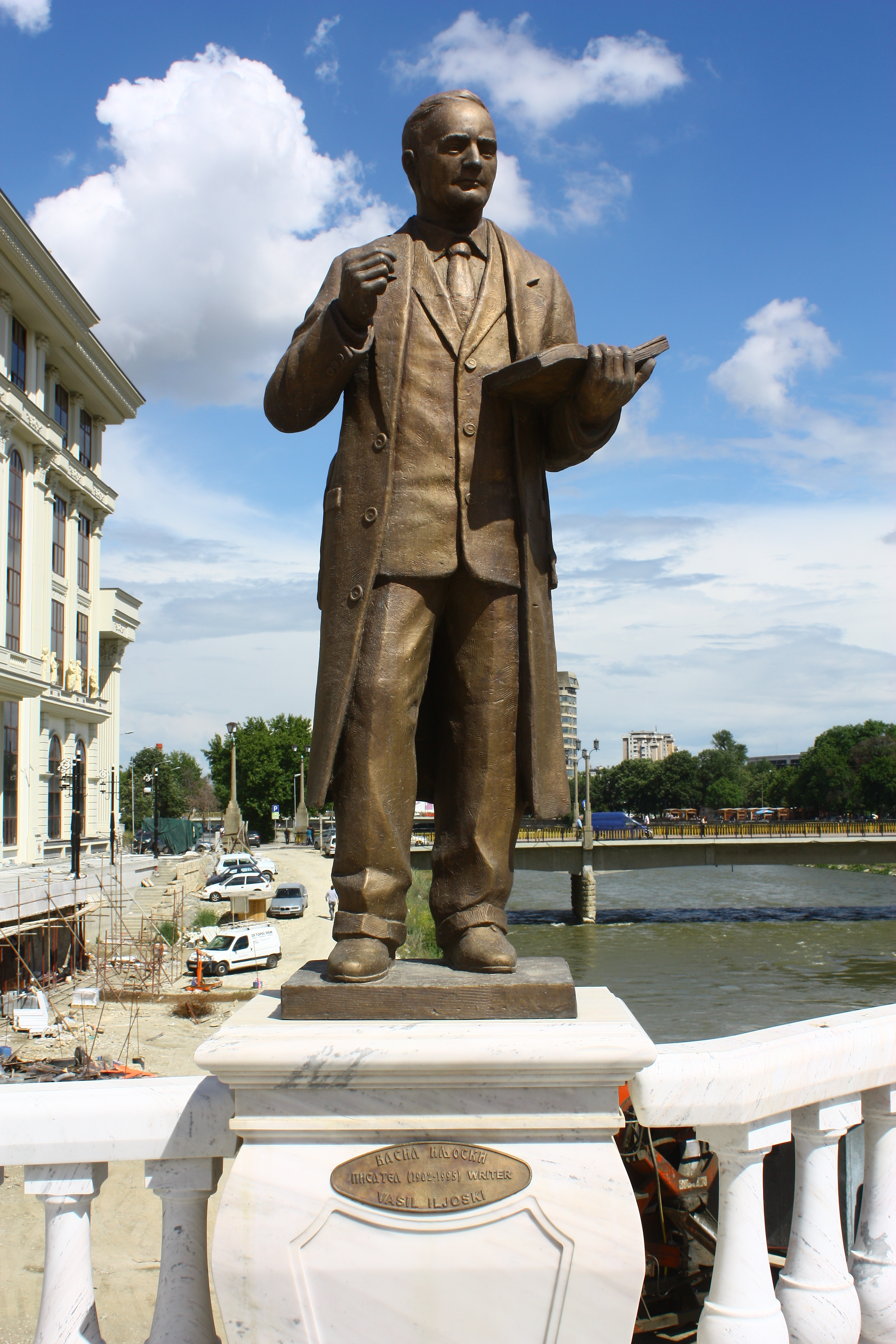 Sculpture od the Bridge of Arts in Skopje, Macedonia This image is uploaded as part of the picture contest Wiki Loves Cultural Heritage in Macedonia 2013. English | македонски | +/−